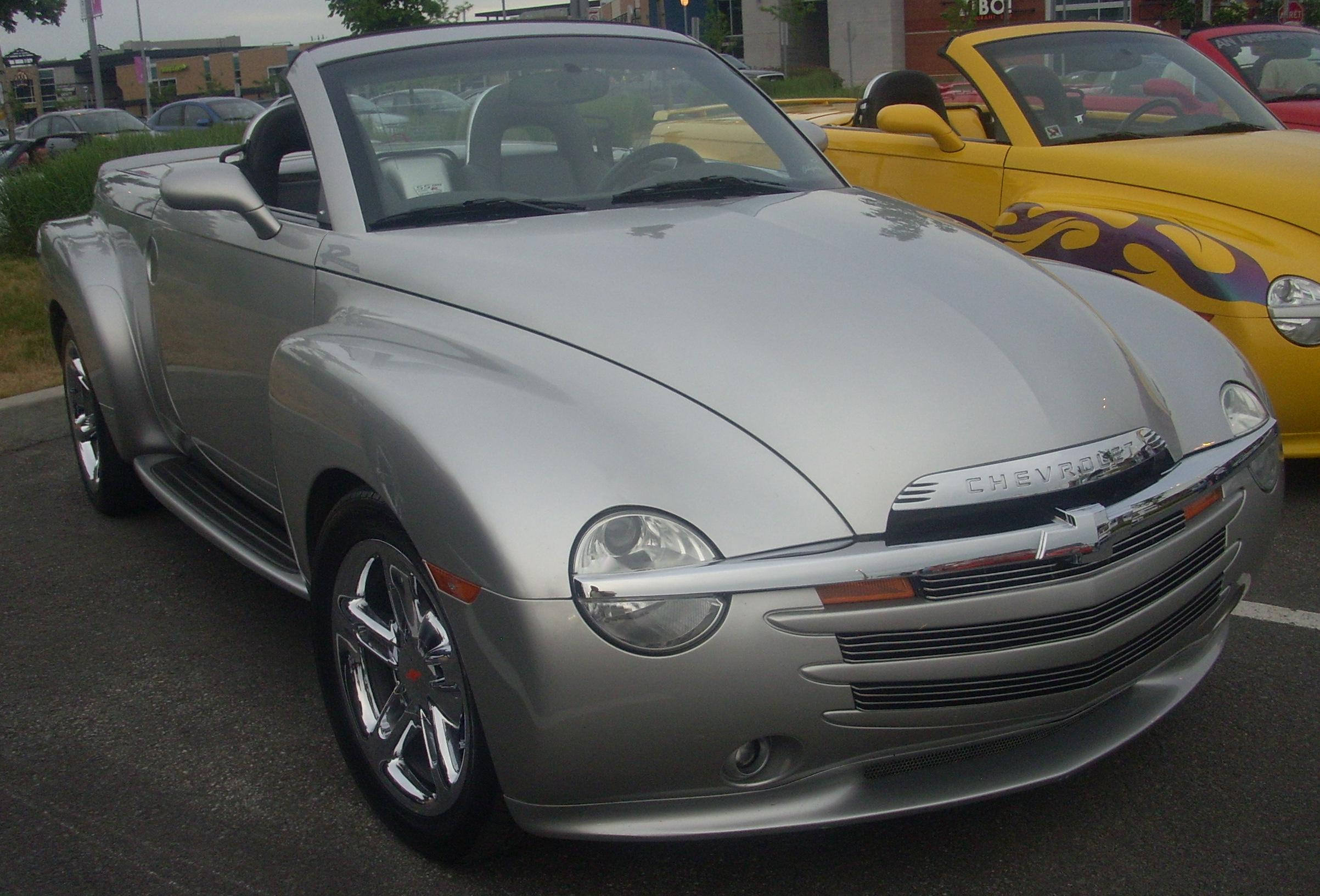 2003-2005 Chevrolet SSR photographed in Laval, Quebec, Canada at Centropolis Laval.